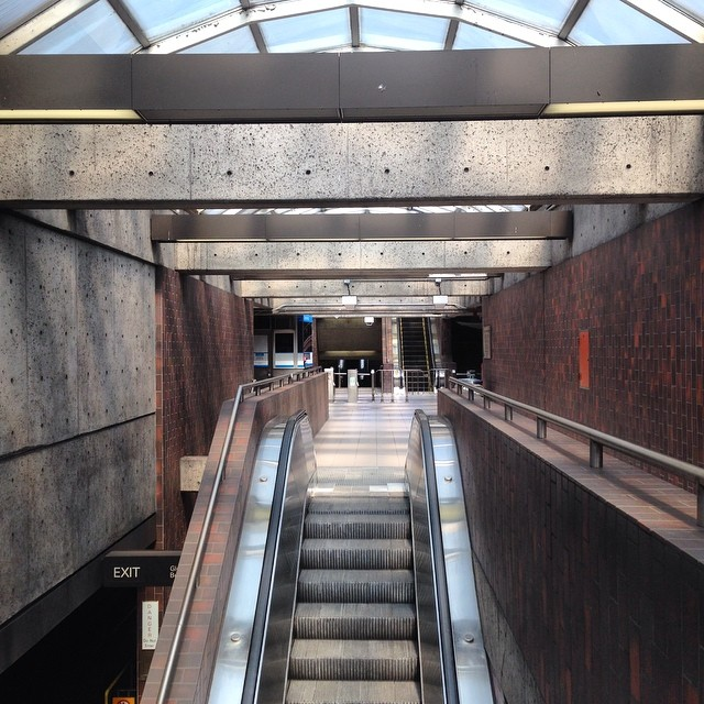 Quiet #TTC at Glencairn subway station in Toronto. Escalators between the train platform, the intermediate concourse with the collectors booth and turnstiles, and the entrance at street